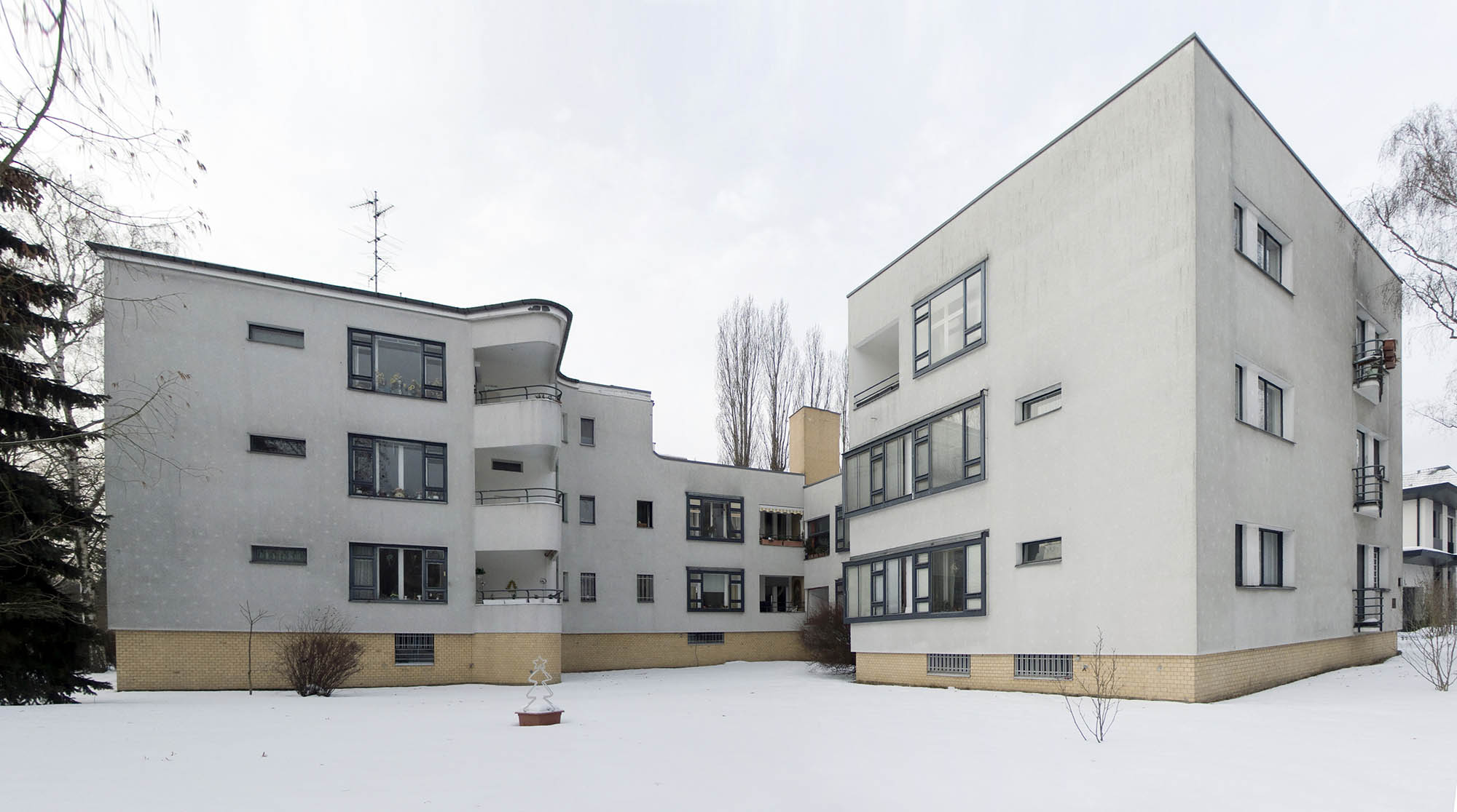 Hans Scharoun, 1931